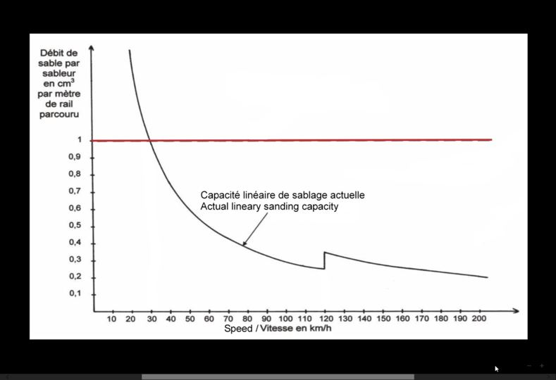 sanding system capacity target